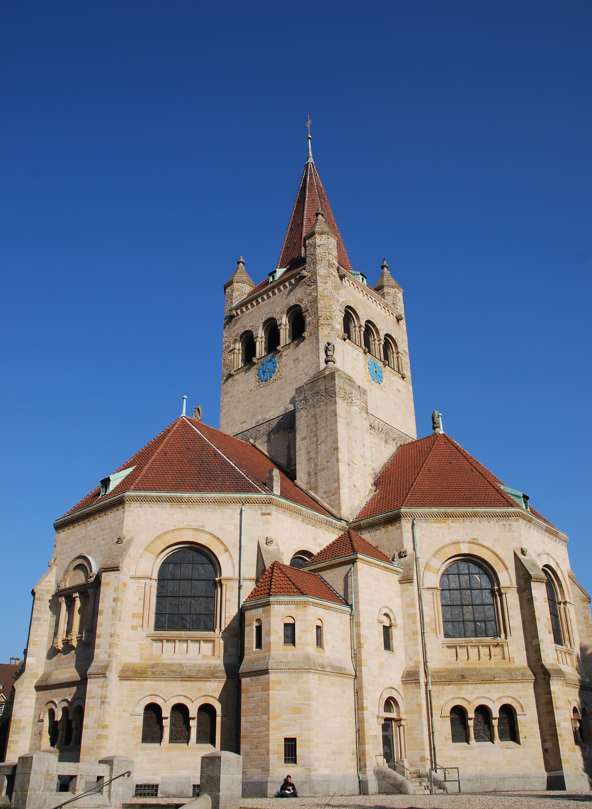 The Paulus Church in Basel.